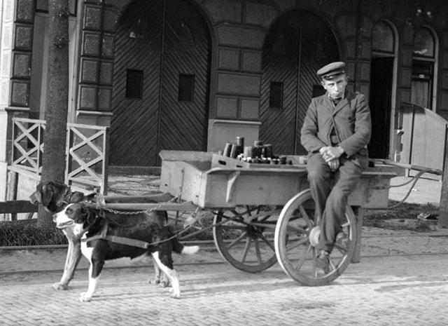 Dog cart with Swiss mountain dog. Unknown place. Year 1904